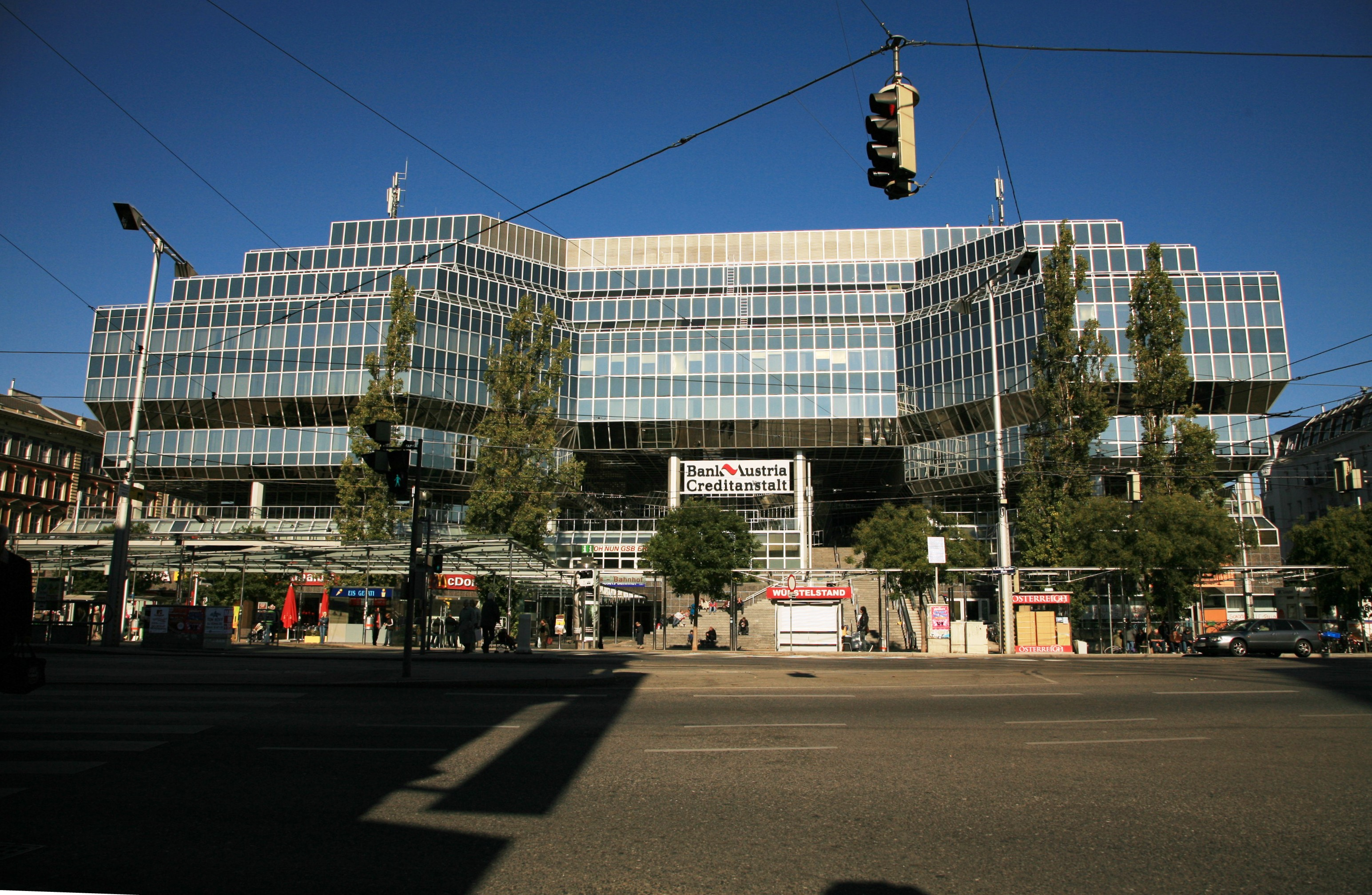 Franz Josephs Bahnhof in Vienna, Austria. The BaCa Building